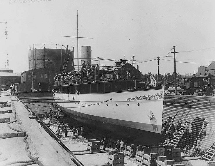 Artemis (American Steam Yacht, 1912). In drydock, probably at the time of her completion.